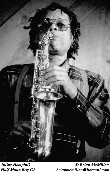 Julius Hemphill @ Bach Dancing & Dynamite Society, Half Moon Bay CA 3/6/88. Photo by Brian McMillen /